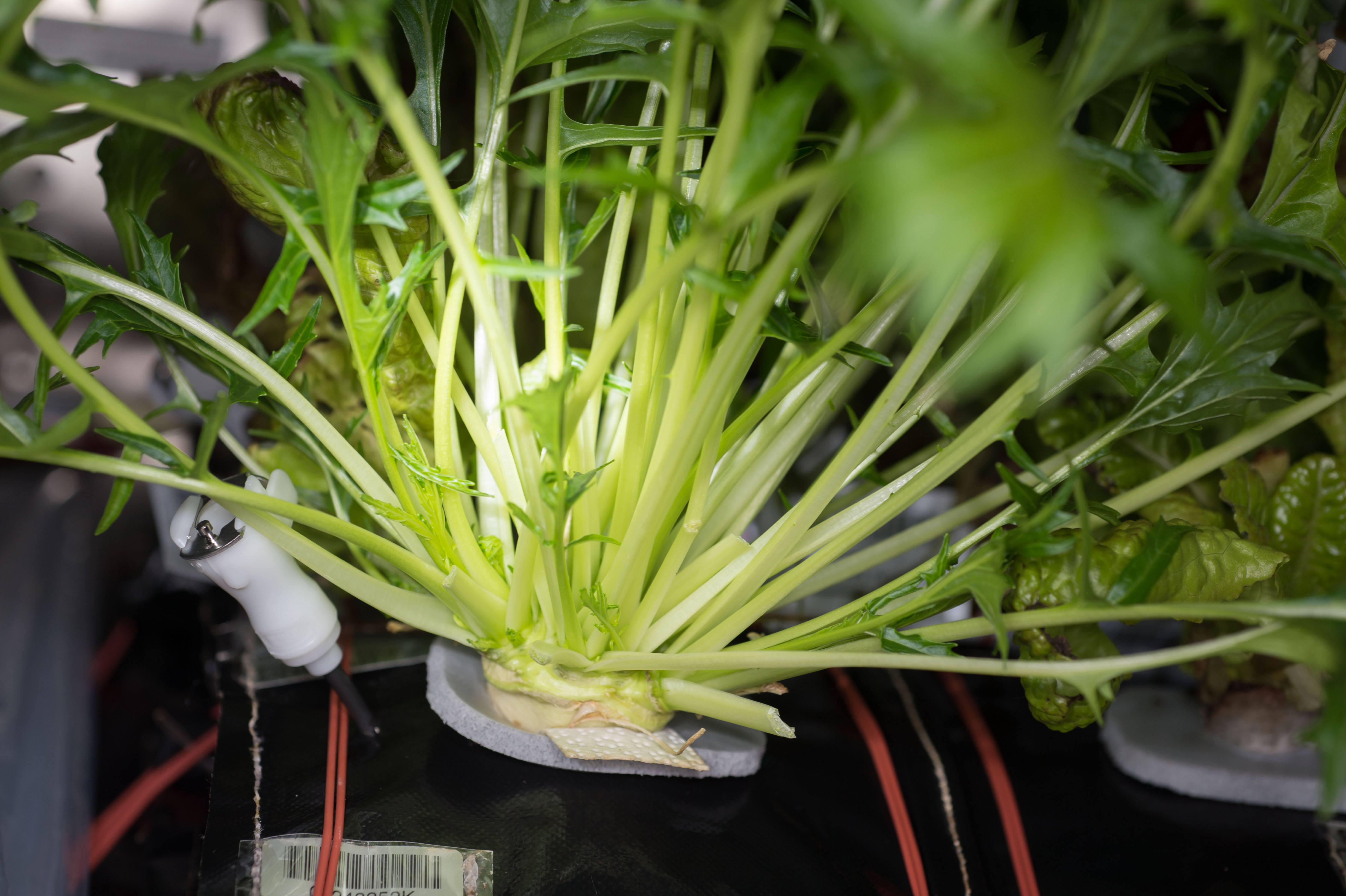 Mizuna is pictured being cultivated inside the Veggie facility for the Veg-03 botany experiment. Future long-duration missions will look to have crew members grow their own food, so understanding how plants respond to microgravity is an important step toward that goal. Veg-03 uses the Veggie plant growth facility to cultivate a type of cabbage, lettuce and mizuna which are harvested on-orbit with samples returned to Earth for testing.